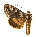 From Plate CCXXXVI